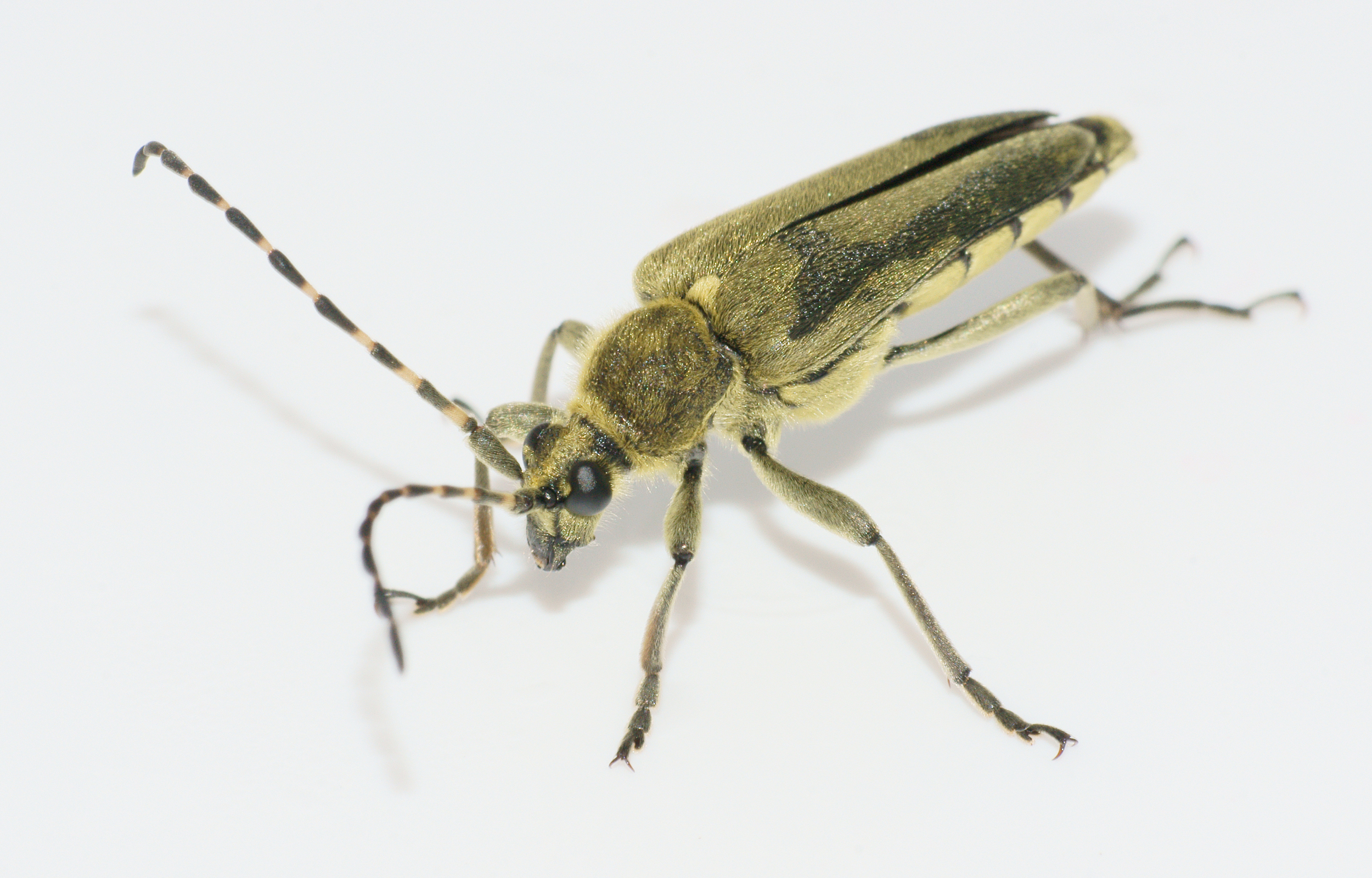 Lepturobosca virens